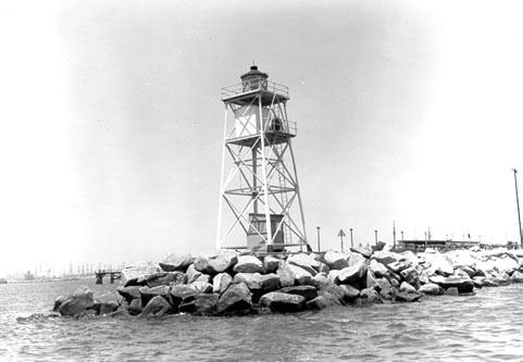 Public Domain statement here; Original Long Beach Light (CA)